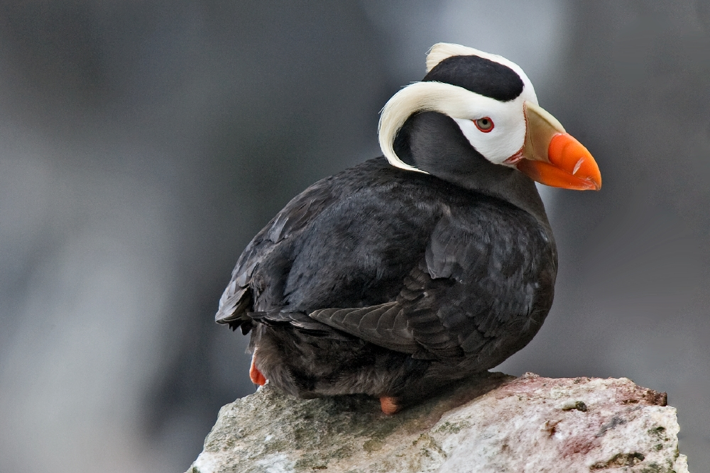 Tufted Puffin, Zapadni Cliffs, St. Paul Island, Alaska